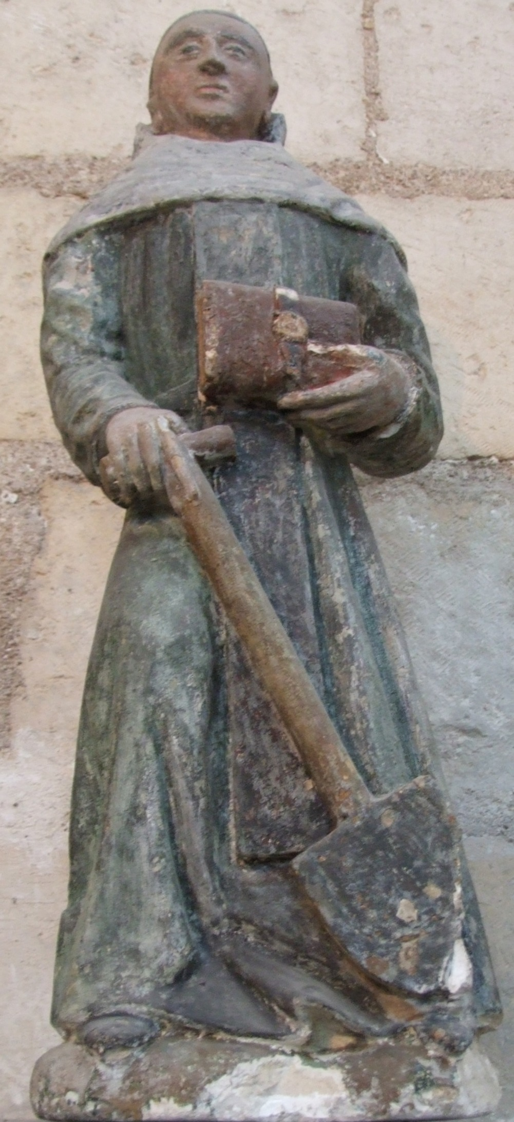 Saint-Germain abbey, Auxerre, Yonne, Burgundy, FRANCE